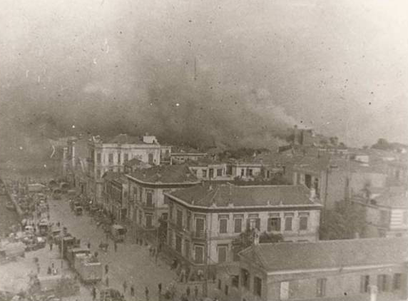 Central Thessaloniki on fire, 1917. Η κεντρική Θεσσαλονίκη καίγεται, 1917.